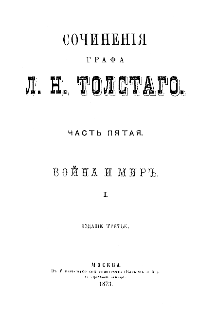 Front page of Tolstoy's novel War and Peace, third edition